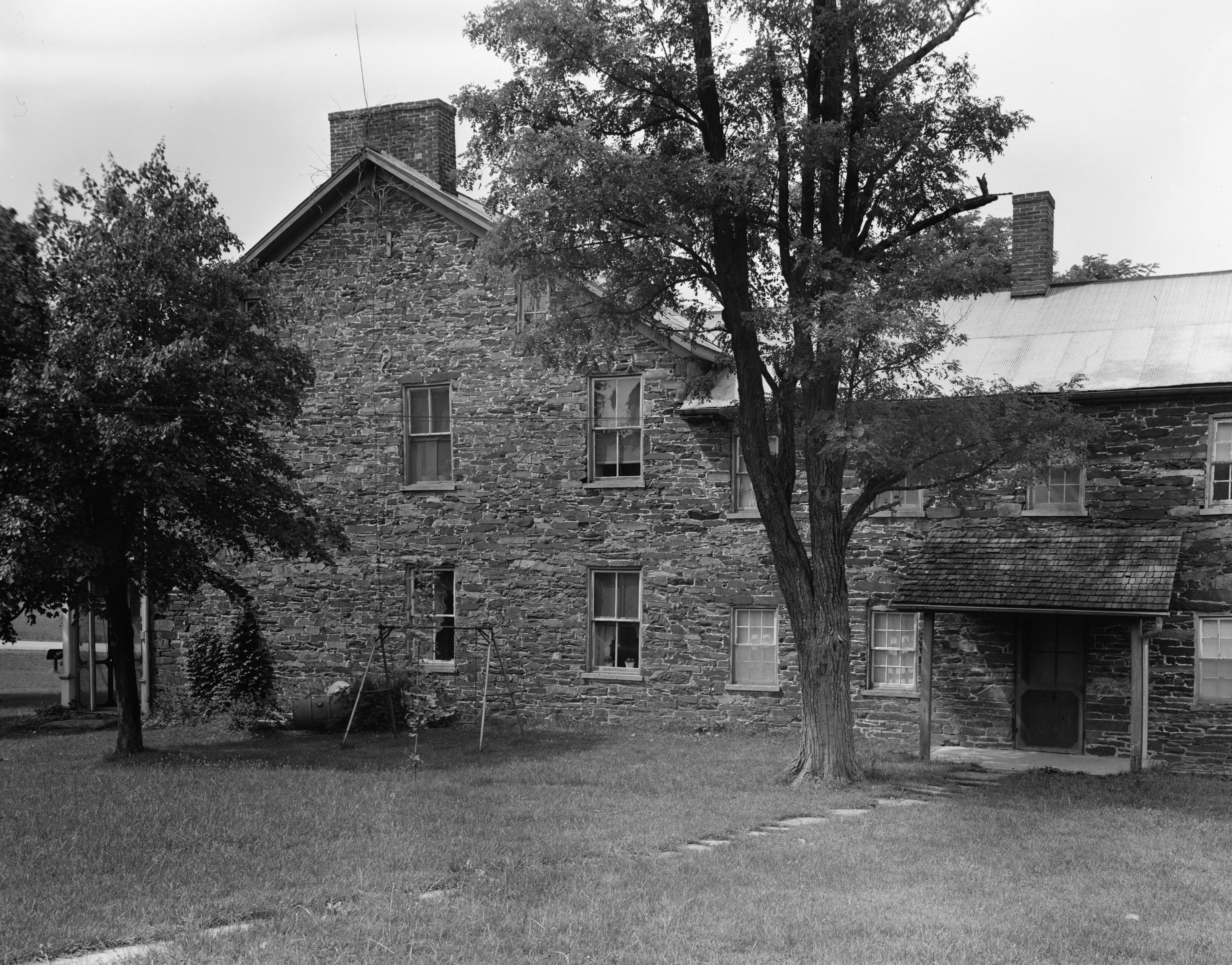 Front of the Black Horse Tavern, located along Pennsylvania Route 116 west of Gettysburg in Cumberland Township, Adams County, Pennsylvania, United States. Built in 1812, it is listed on the National Register of Historic Places.